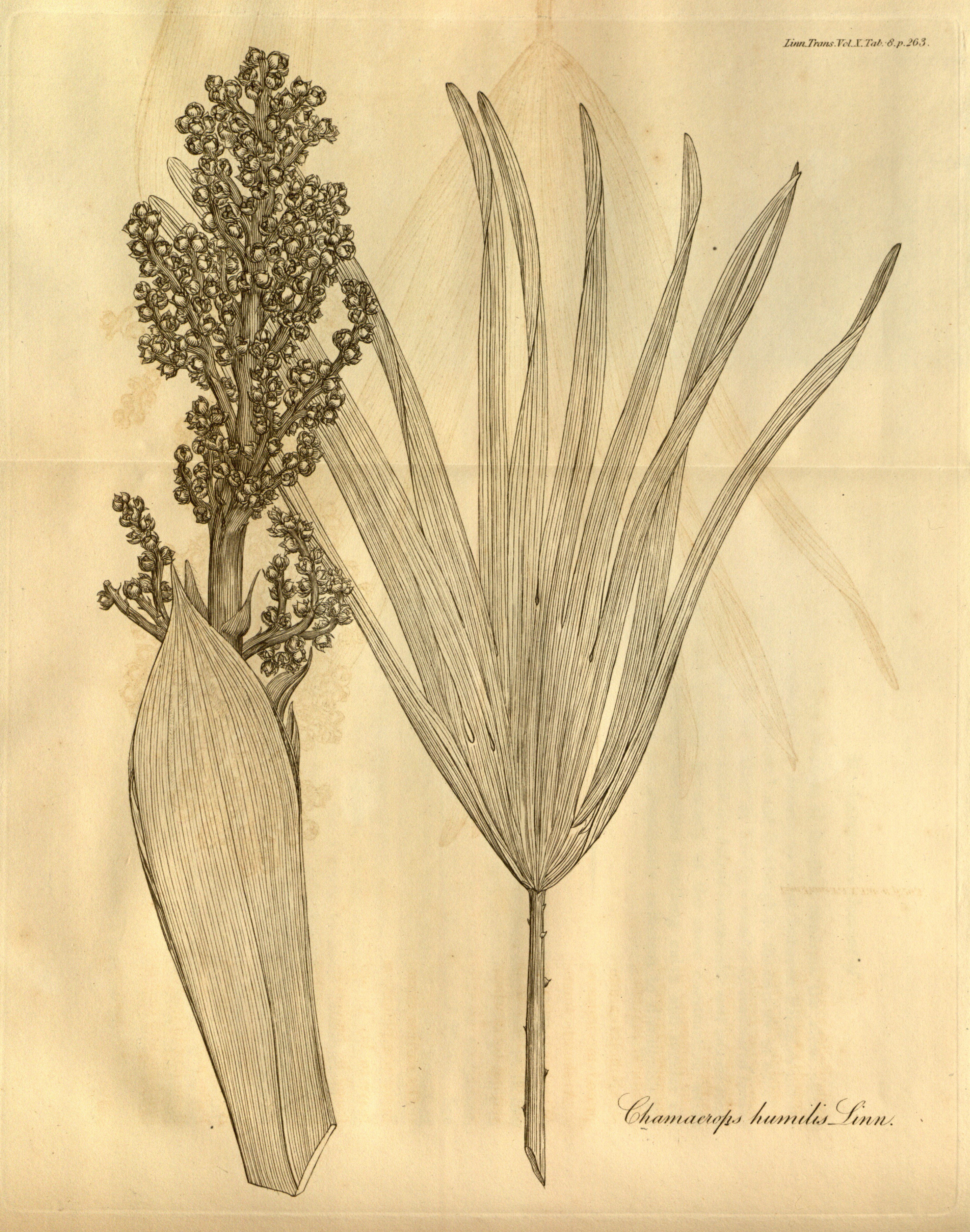 Chamaerops humilis downloaded from Transactions of the Linnean Society of London, vol. 10: t. 8 (1815) [n.a.]